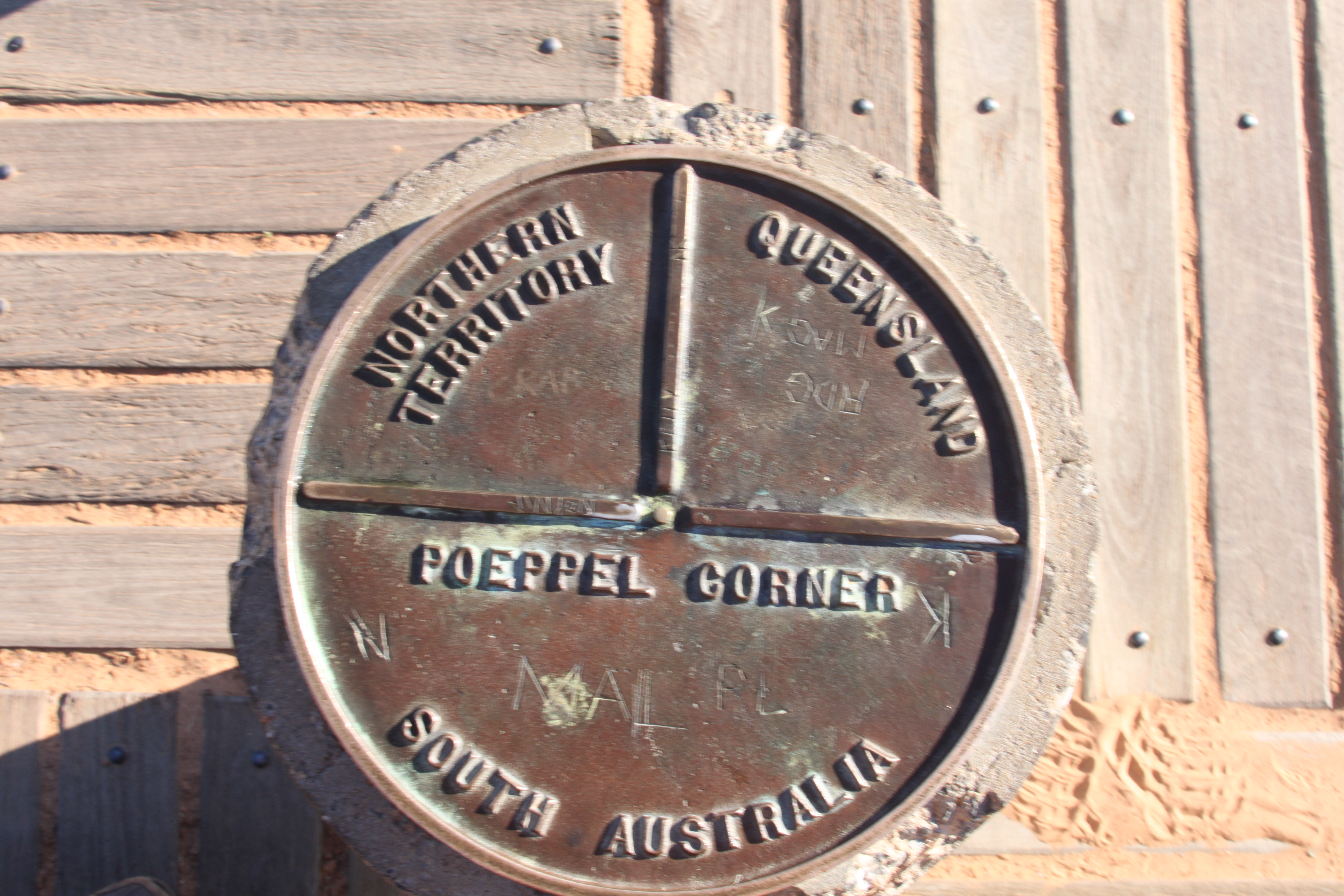 Top of the marker post at Poeppel Corner marking the state boundary of South Australia, Northern Territories and Queensland.